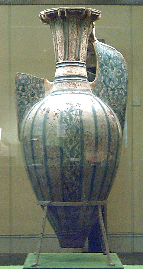 An Alhambra-type vase.